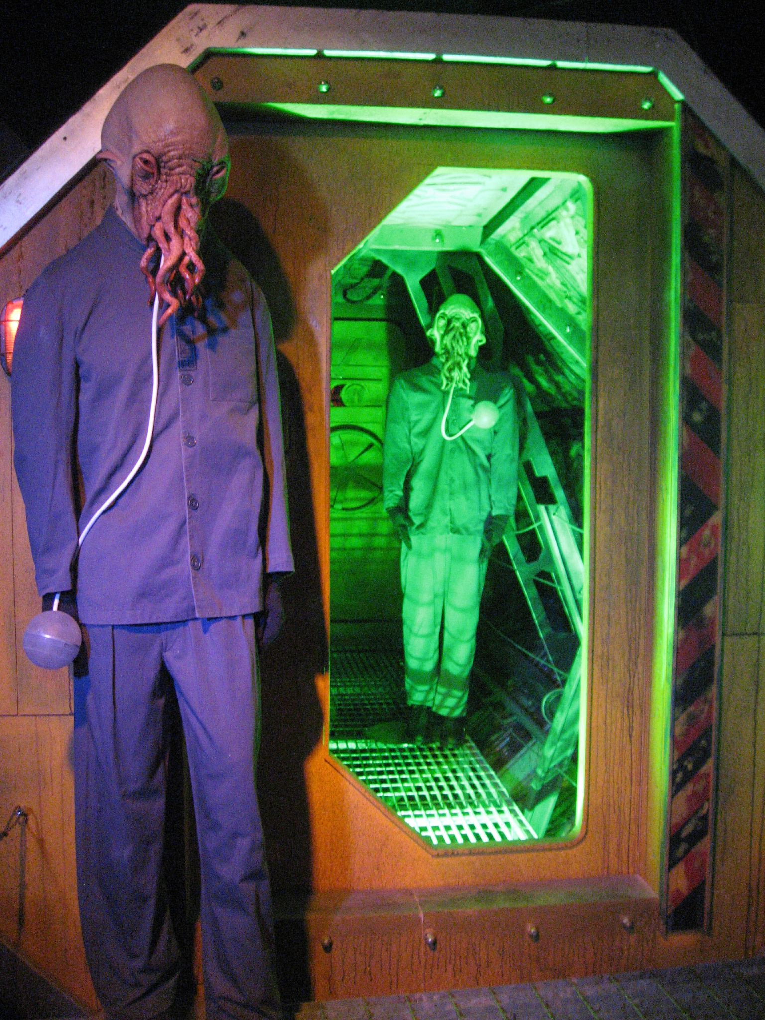 Dr Who Doctor Who Experience